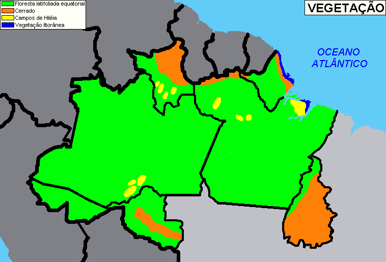 North of Brazil climate map.